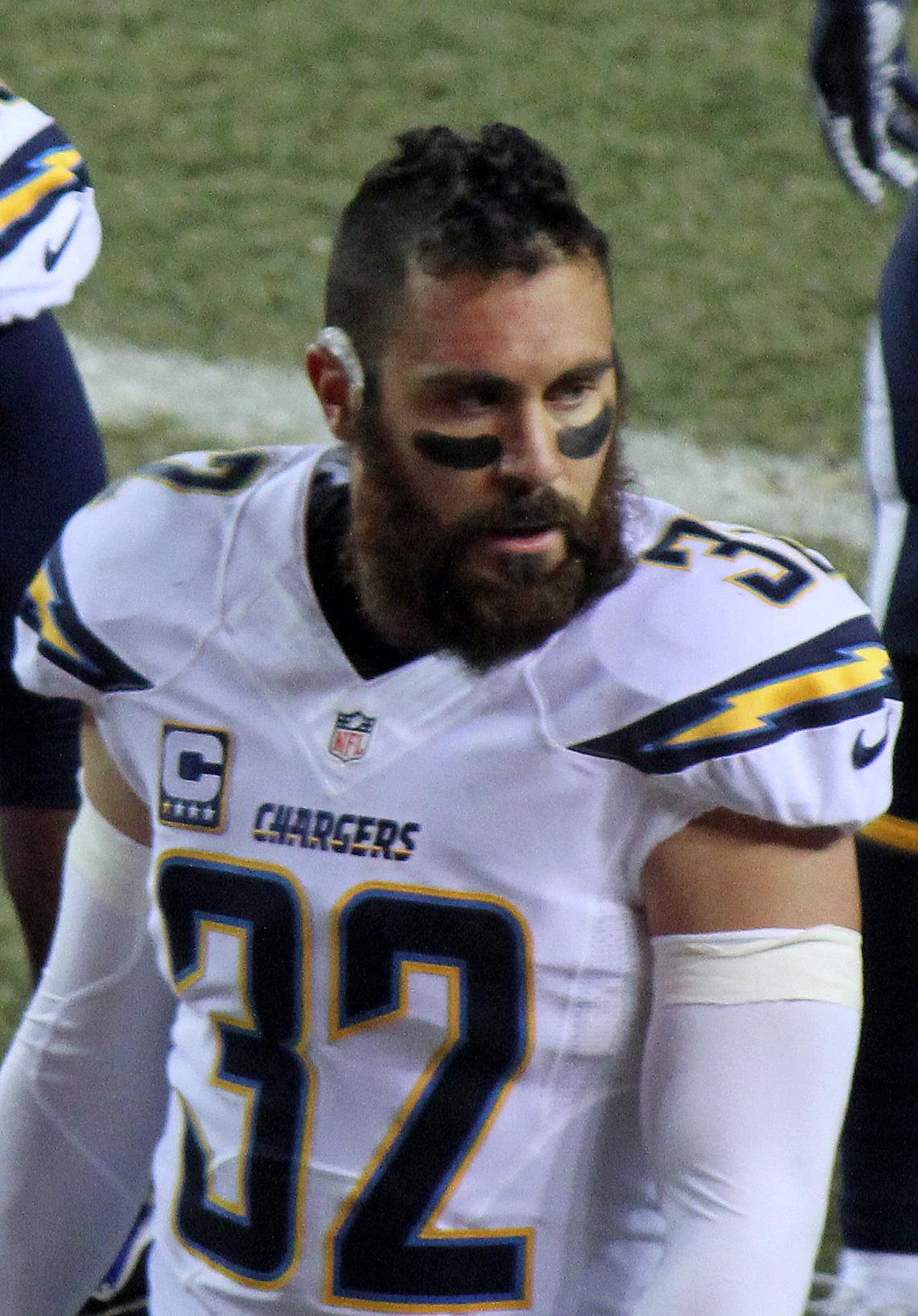 Eric Weddle, a player on the National Football League.